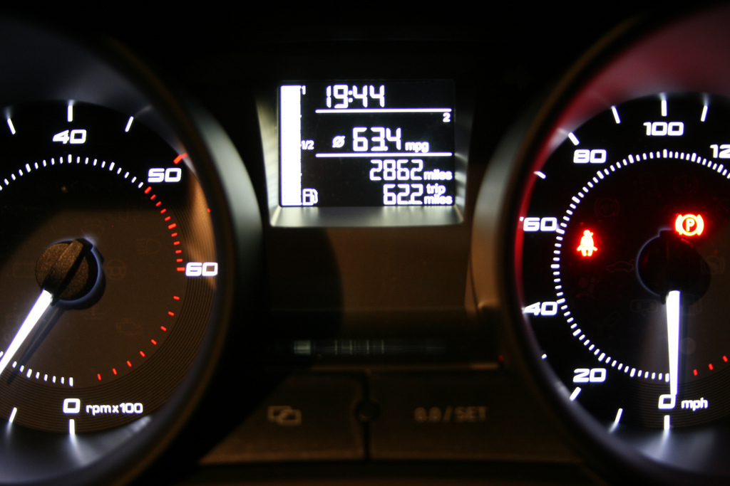 The Ibiza FR might be capable of 0-62mph in just 8.2 seconds, but it's also capable of some impressive economy figures